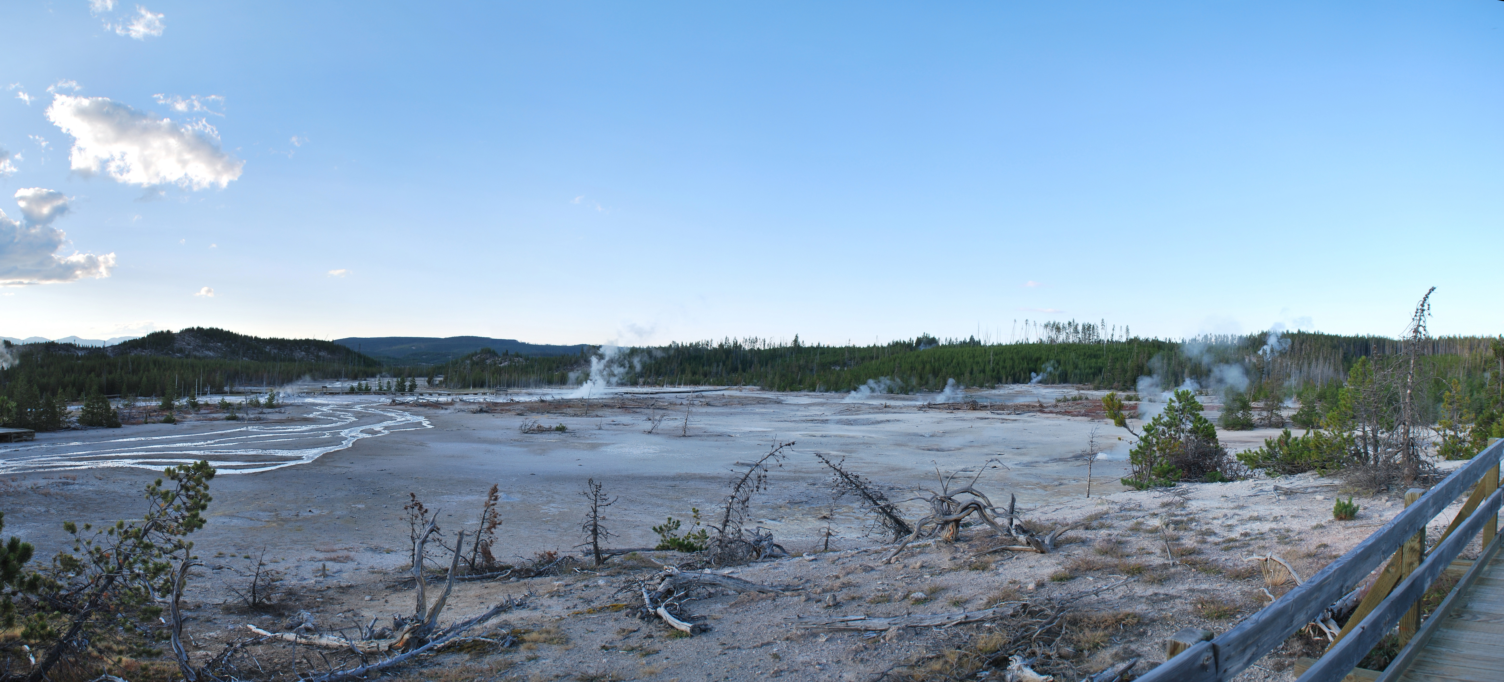 Panaroma of the Back Basin at the Norris Geyser Basin in Yellowstone National Park